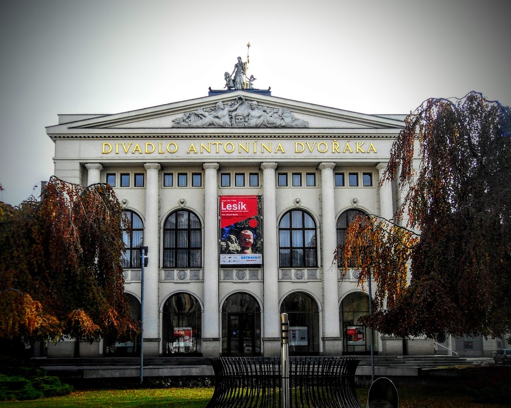 Divadlo Antonína Dvořáka